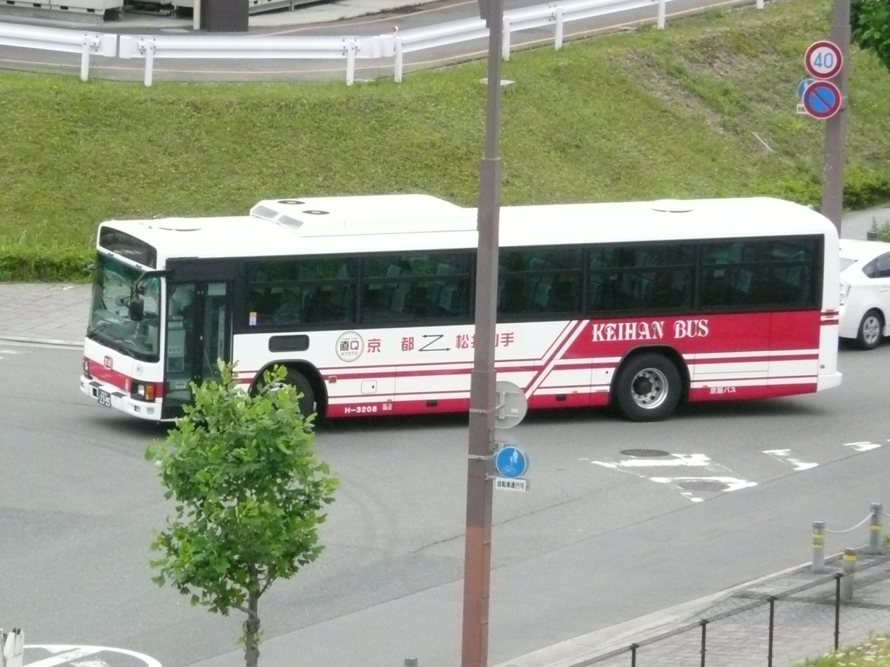 Express bus "Direct Express Chokkyu Kyoto Go" operated by Keihan Bus Co., Ltd. (Car No. H-3208)